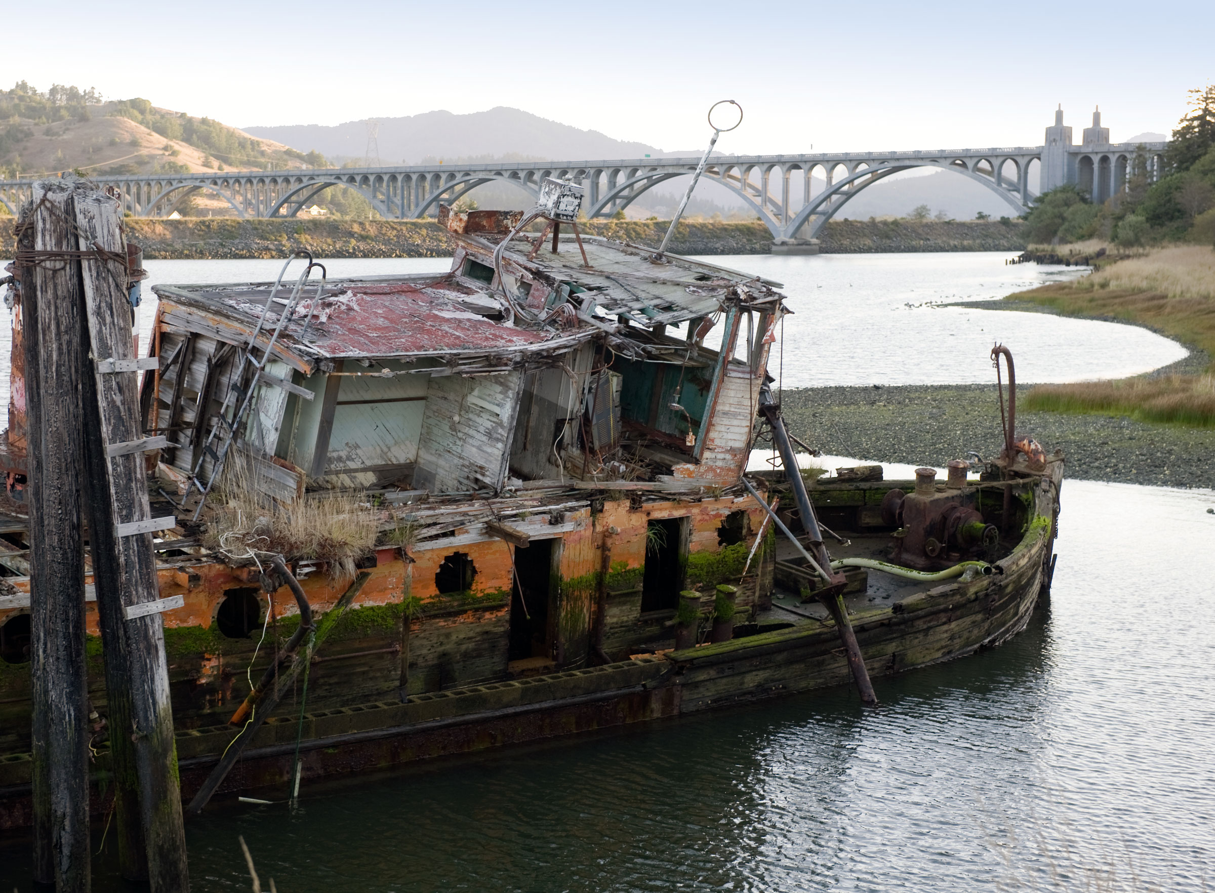 Coastal steamer Mary D Hume in Gold Beach, Oregon. The ship was listed on the National Register of Historic Places for Curry County, Oregon, in 1979.